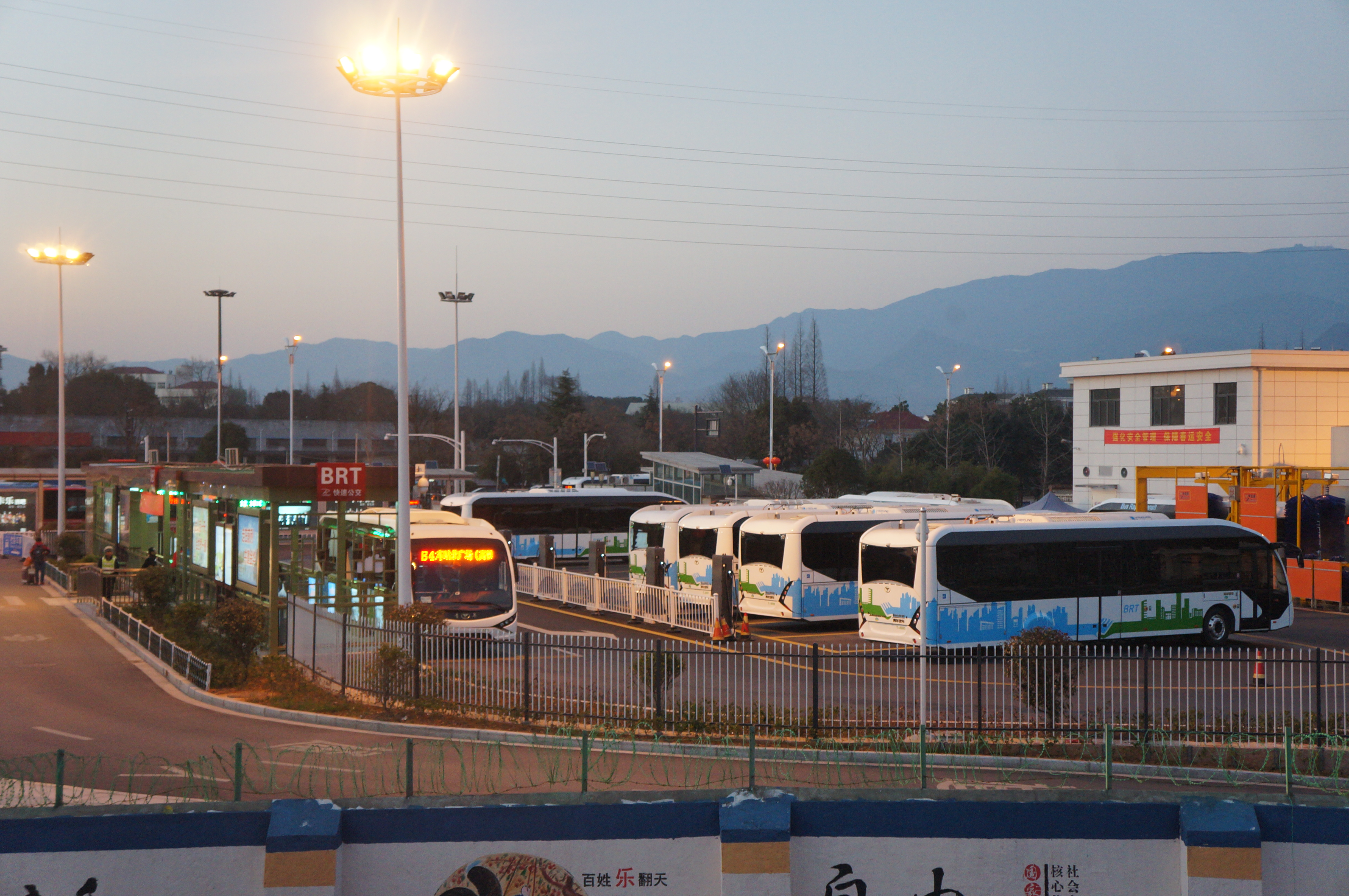 201702 BRT-Stop at the northern square of Jinhua Station